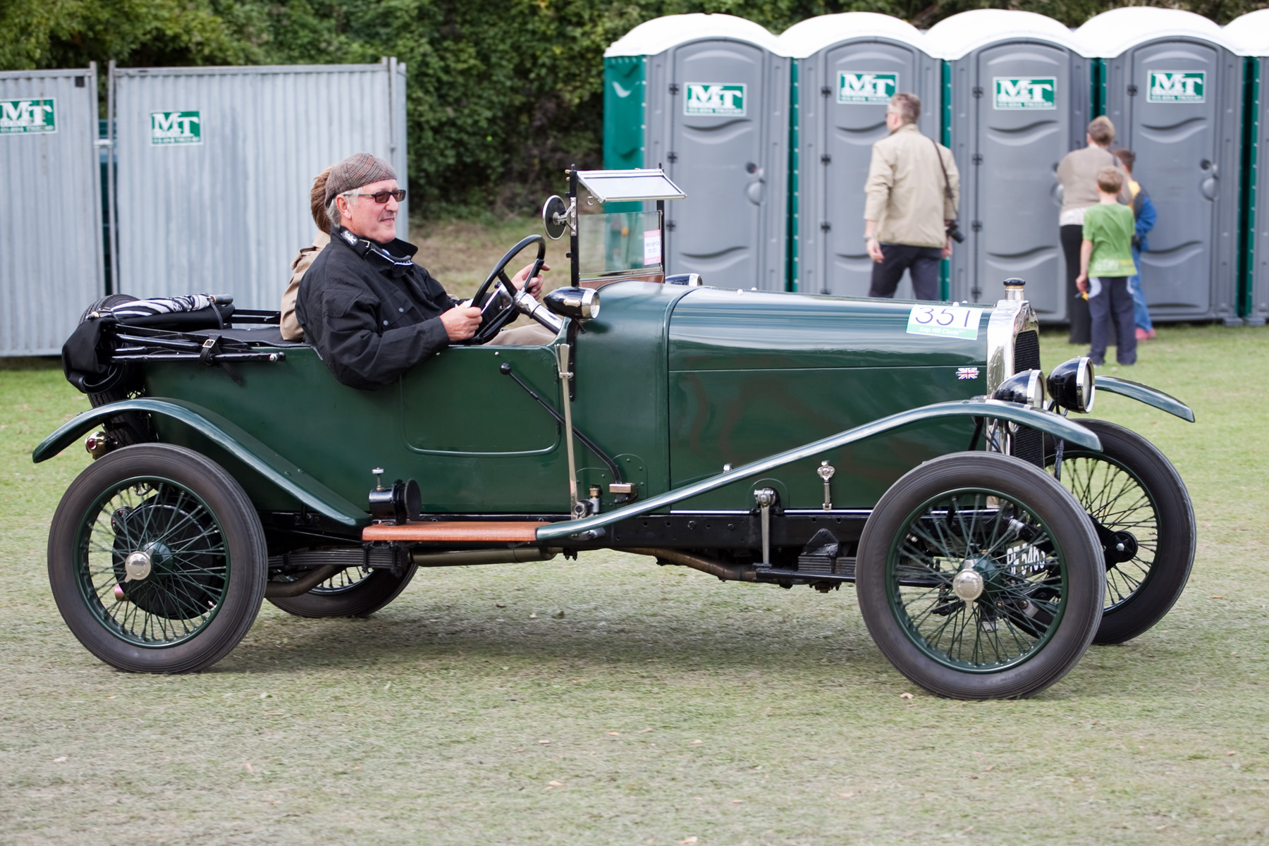 1923 Talbot 10/23 1074 cc BF 5463 Kop Hill Climb 2011